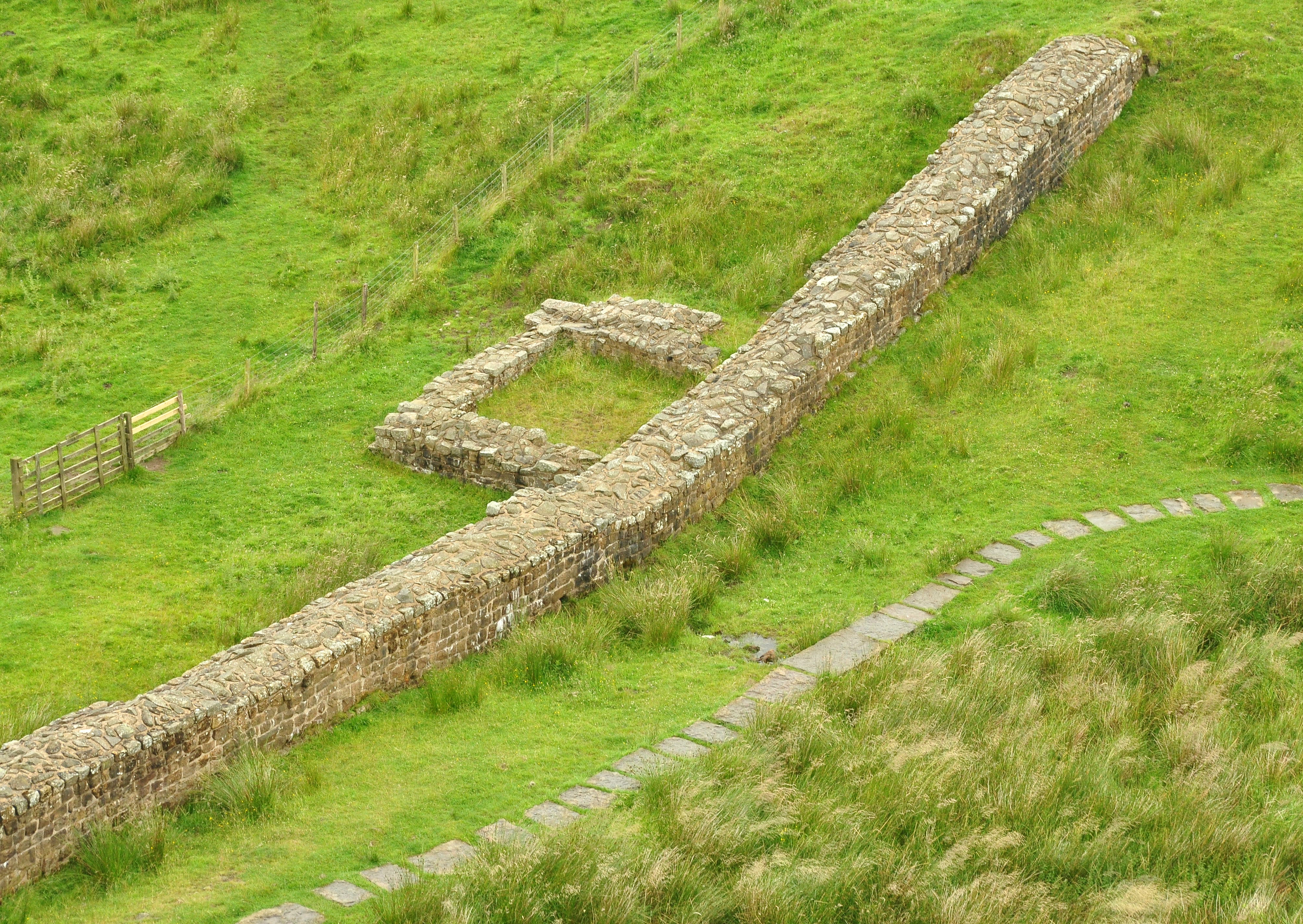 Peel Gap Tower on Hadrian's Wall near Steel Rigg